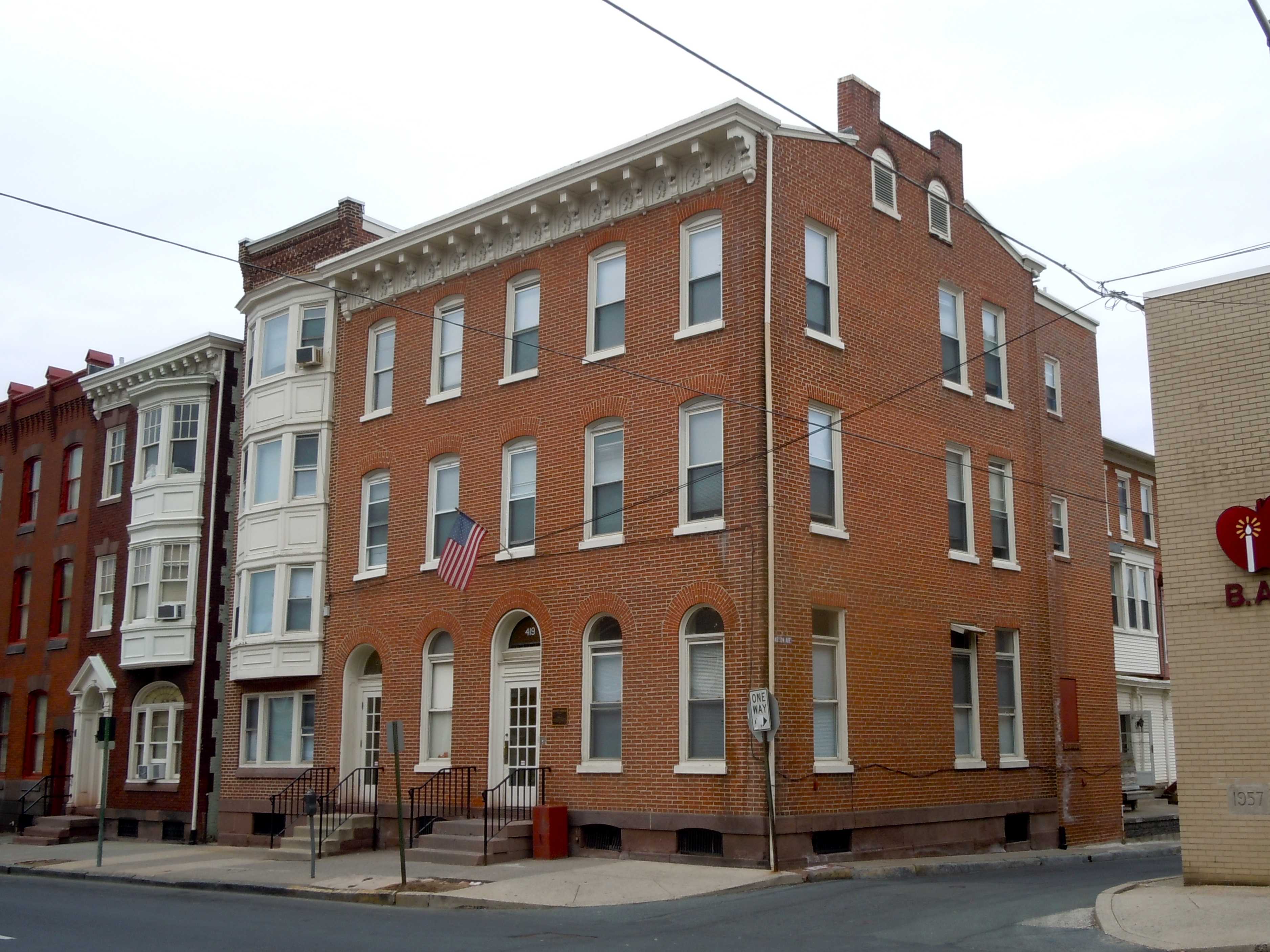 Livingood House-Stryker Hospital on the NRHP since November 7, 1996. At 417–419 Walnut Street, Reading, Berks County, Pennsylvania